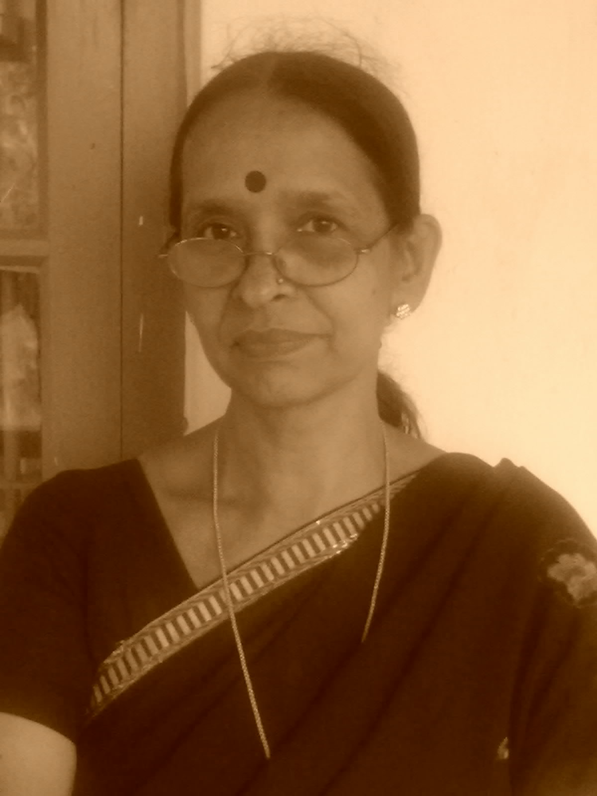 Kannada writer Maheshwari U